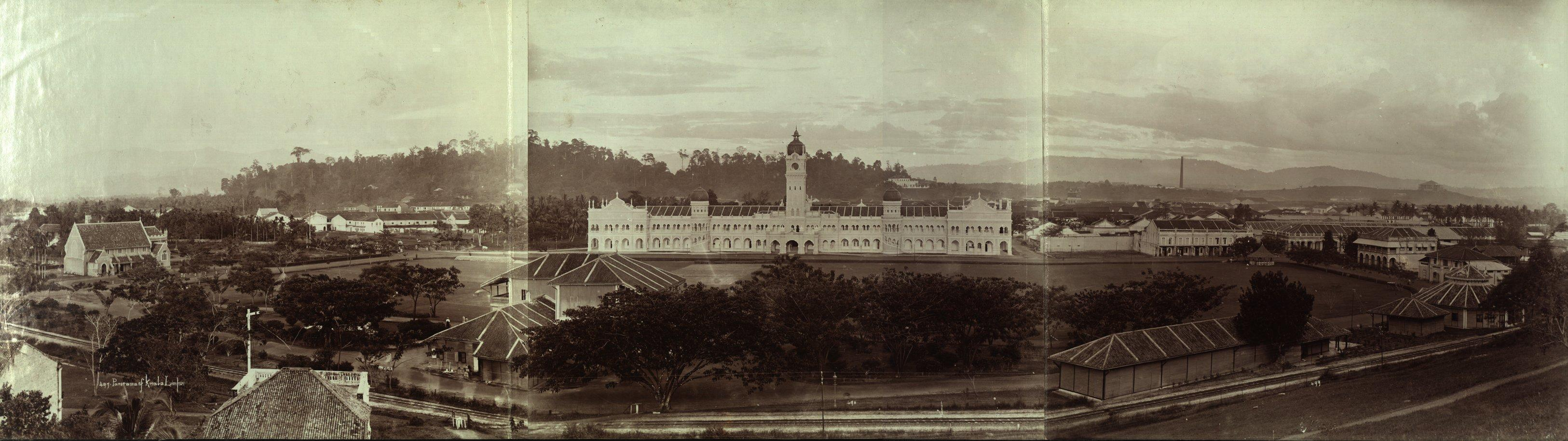 Sultan Abdul Samad Building, British colonial administrative center in Kuala Lumpur - circa 1900. Title mislabeled as it is not a mosque.